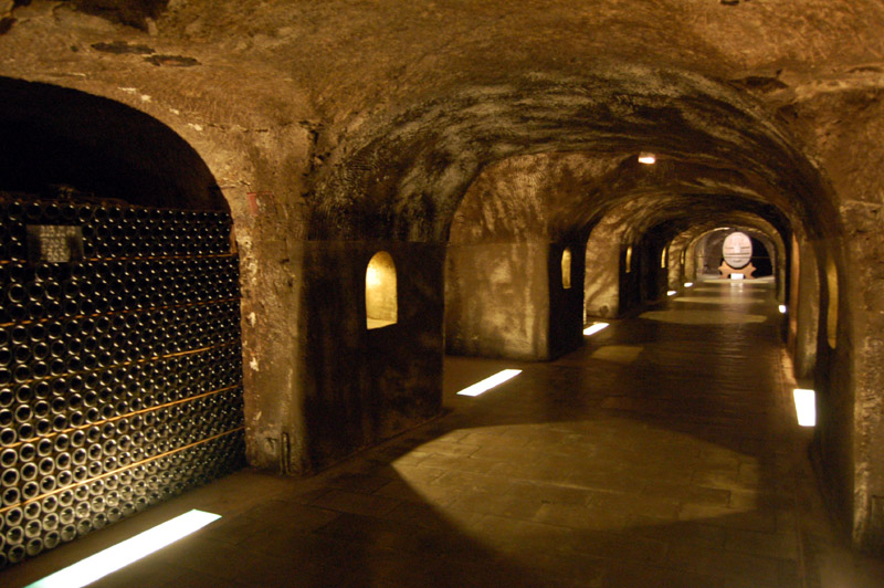 Underground wine caves in the Champagne where Champagne is aged in a constant cool temperature environment.